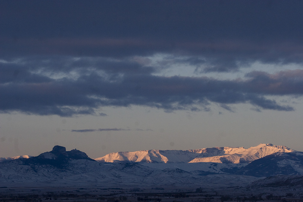 Heart Mountain and surrounding mountains covered in snow